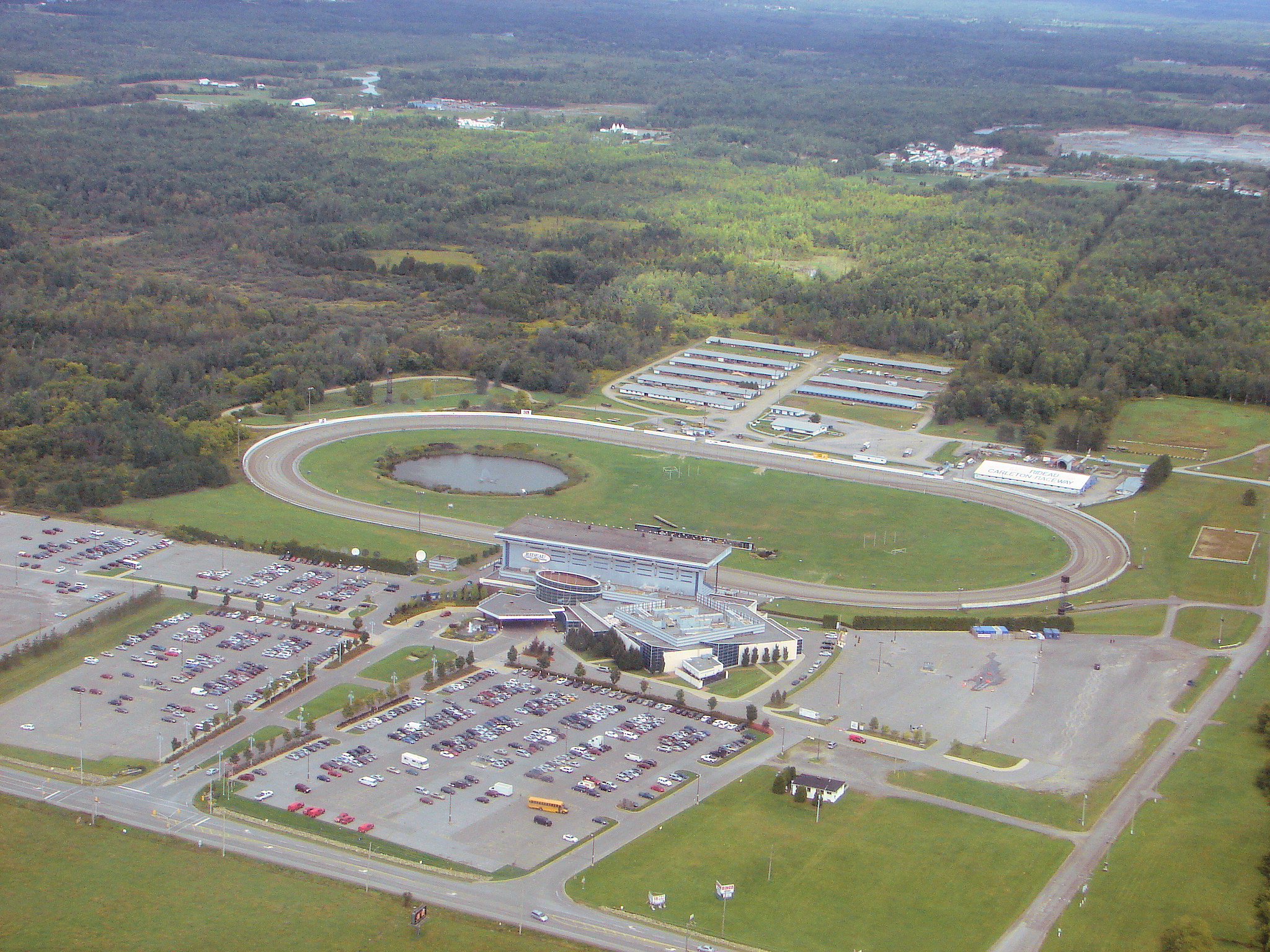 Aerial view of Rideau-Carleton Raceway, Ottawa, Ontario, Canada